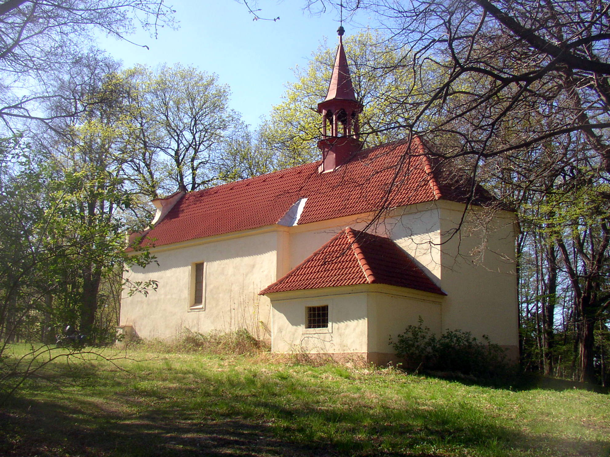 Pilgrimage church of Holy Trinity near Srbeč, Rakovník District, Czech Republic.